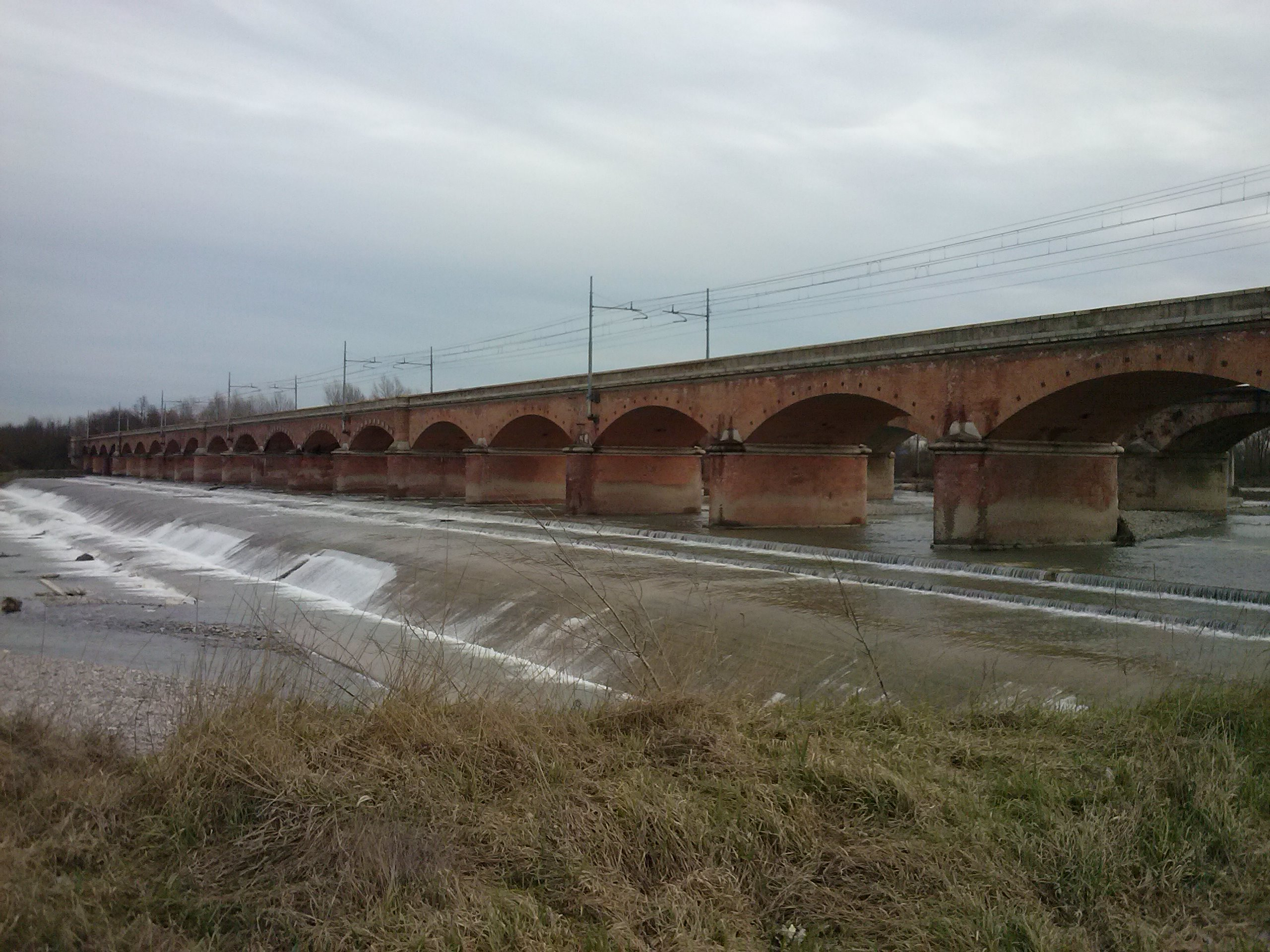 Railway bridge crossing the river Trebbia between Piacenza and San Nicolò a Trebbia (municipality of Rottofreno, Piacenza)